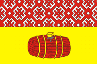 Velsk (Arkhangelsk oblast), flag